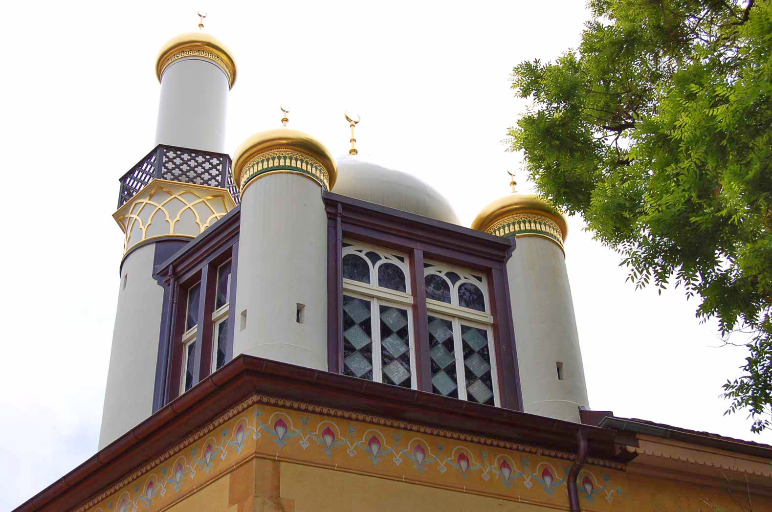 Minaret of Serrières, in Serrières, Neuchâtel, Switzerland.